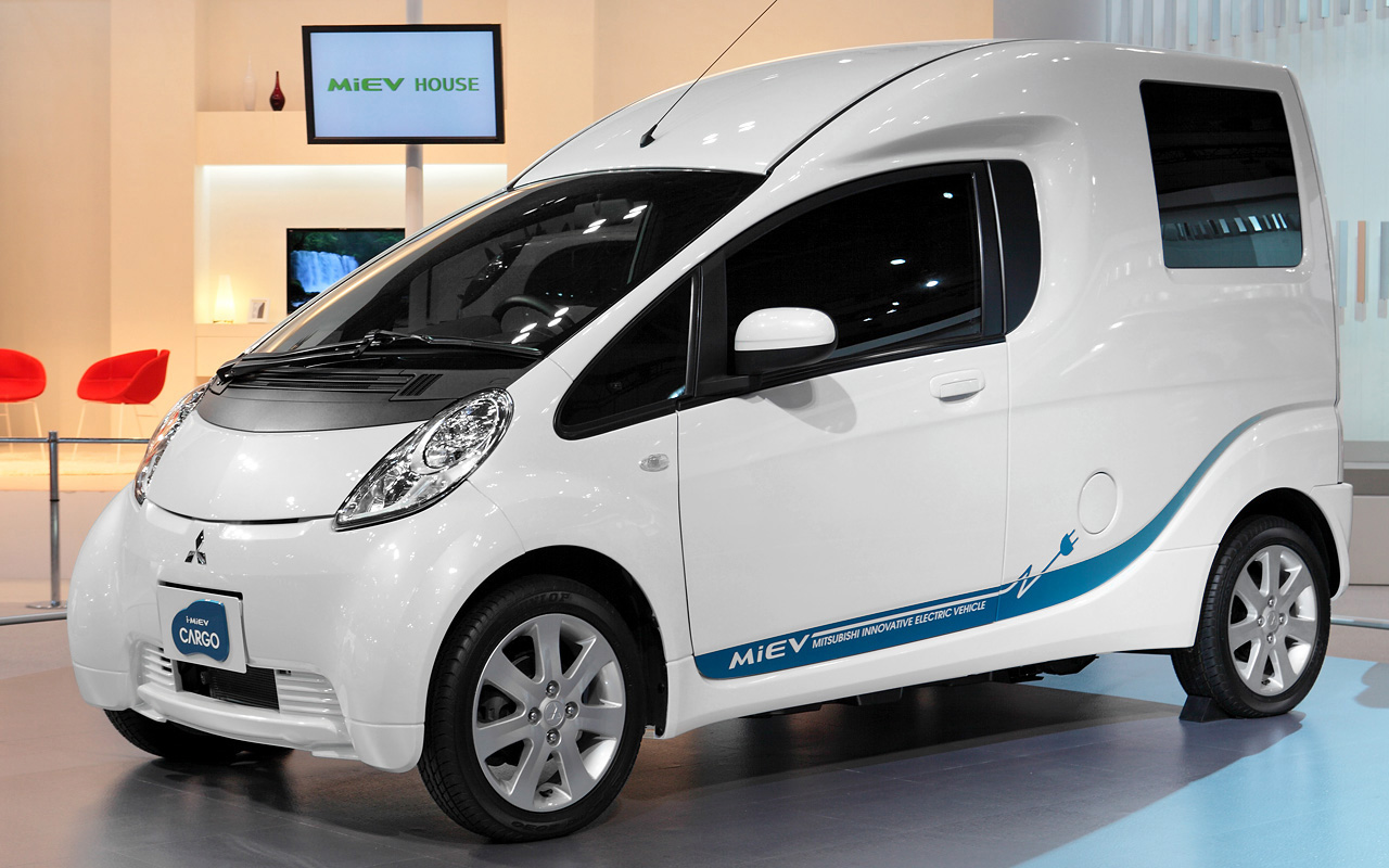 Mitsubishi i MiEV Cargo at 2009 Tokyo Motor Show.